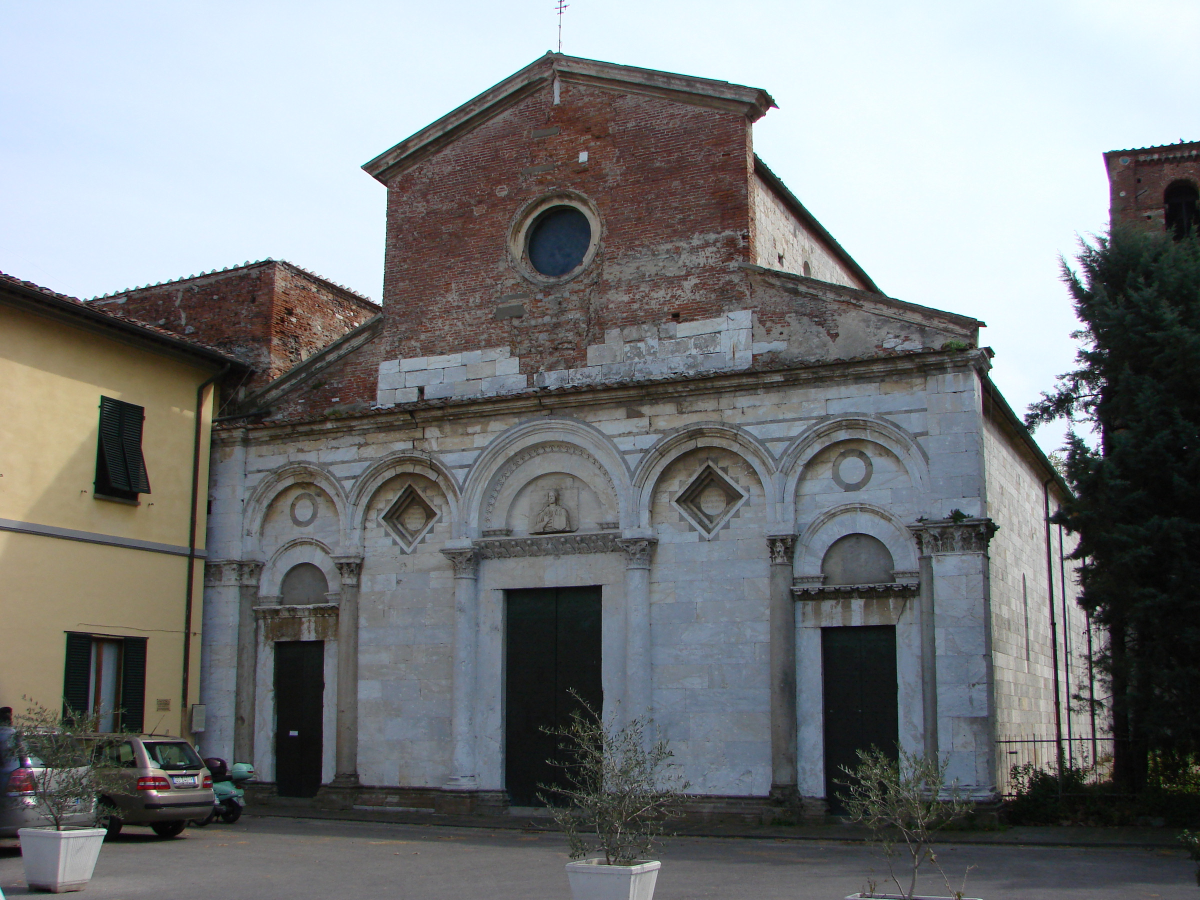 Church of San Michele degli Scalzi in Pisa - Facade